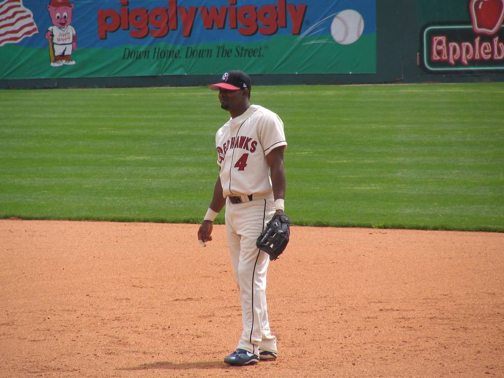 Manny Alexander playing for the Oklahoma RedHawks.